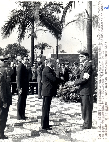 The president of Brazil, João Figueiredo, receive from the hands of the president of the Veterans of 32 Society, Reinaldo Saldanha da Gama, the "Medal 9 July", on the occasion of the commemorations of the 50th anniversary of the Constitutionalist Revolution.